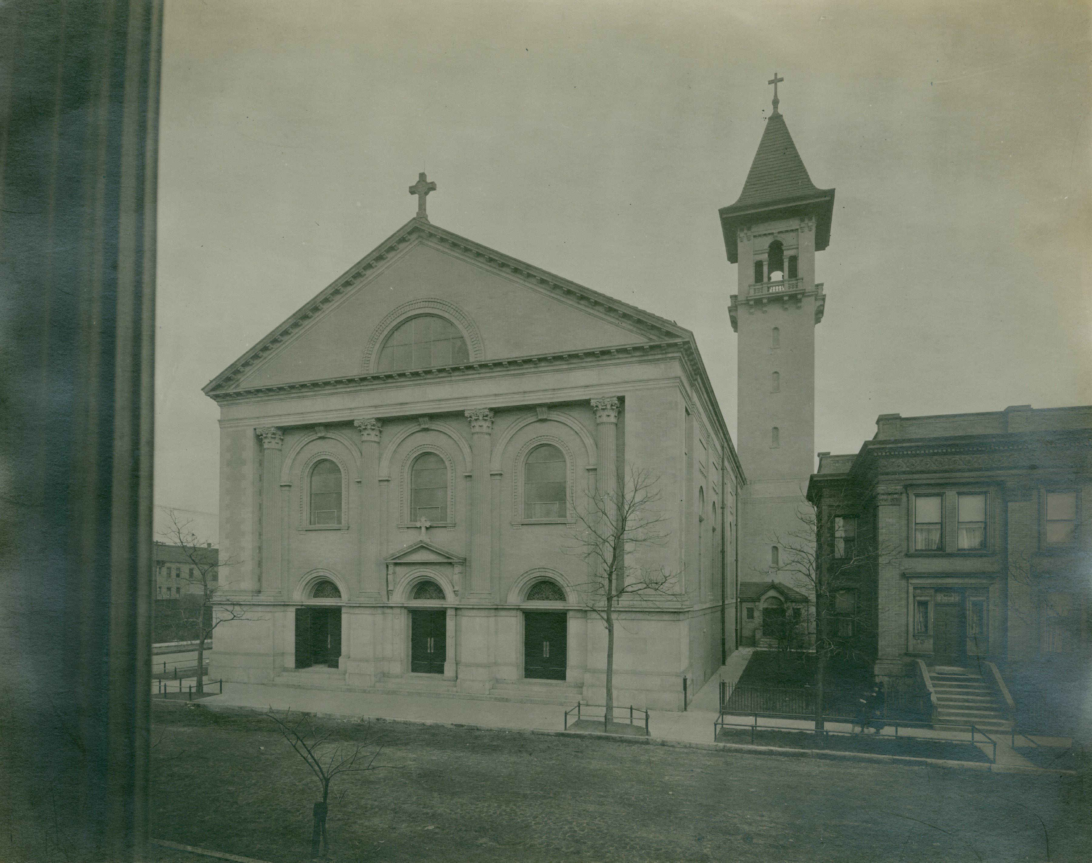 " St Cyril Et Methodius, S. Hermitage Ave. at 50th St."--Photograph verso.